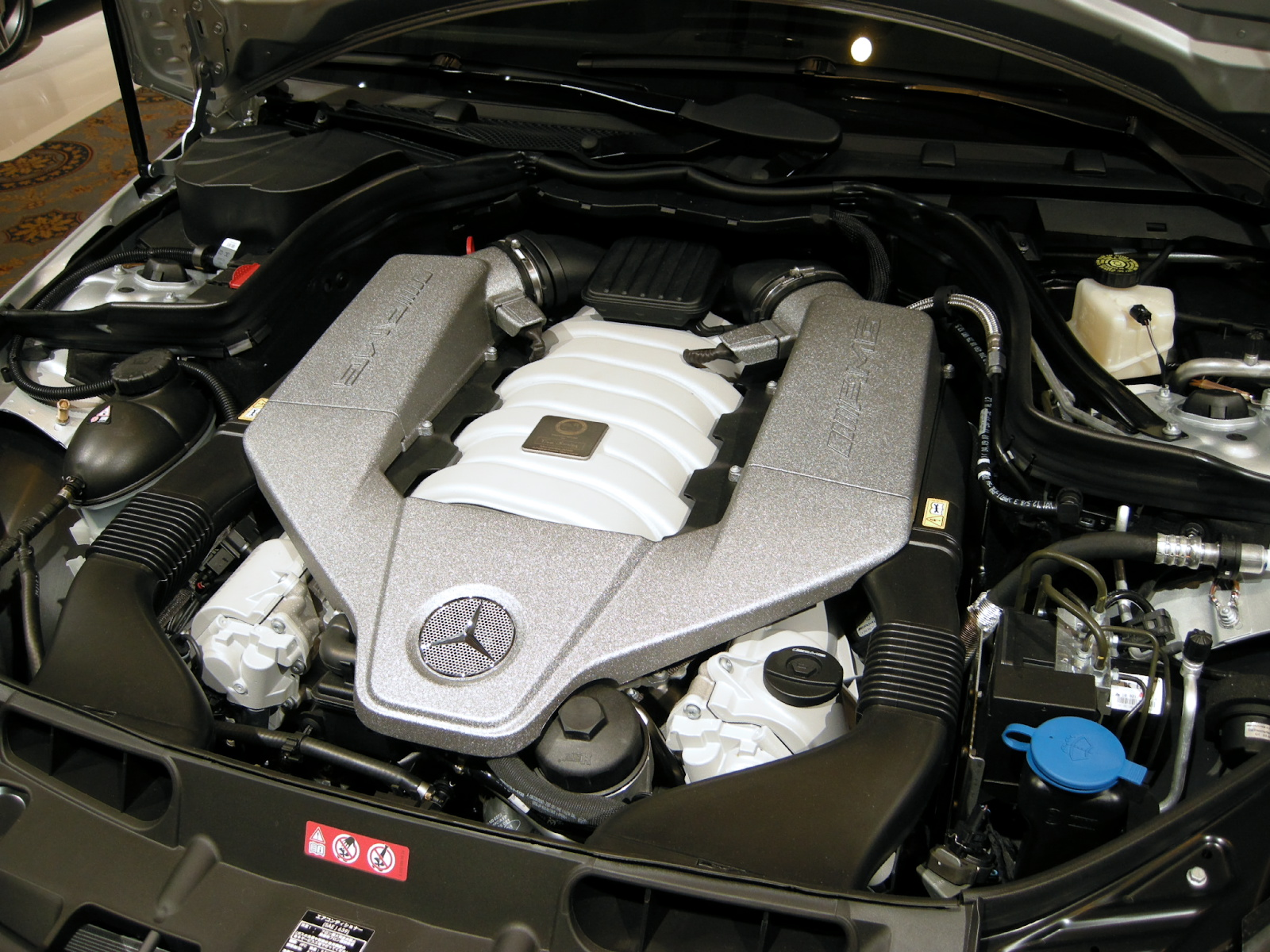 Mercedes-Benz M156 AMG 6.3L V8 DOHC Engine installed in 2008 Mercedes-Benz C63 AMG